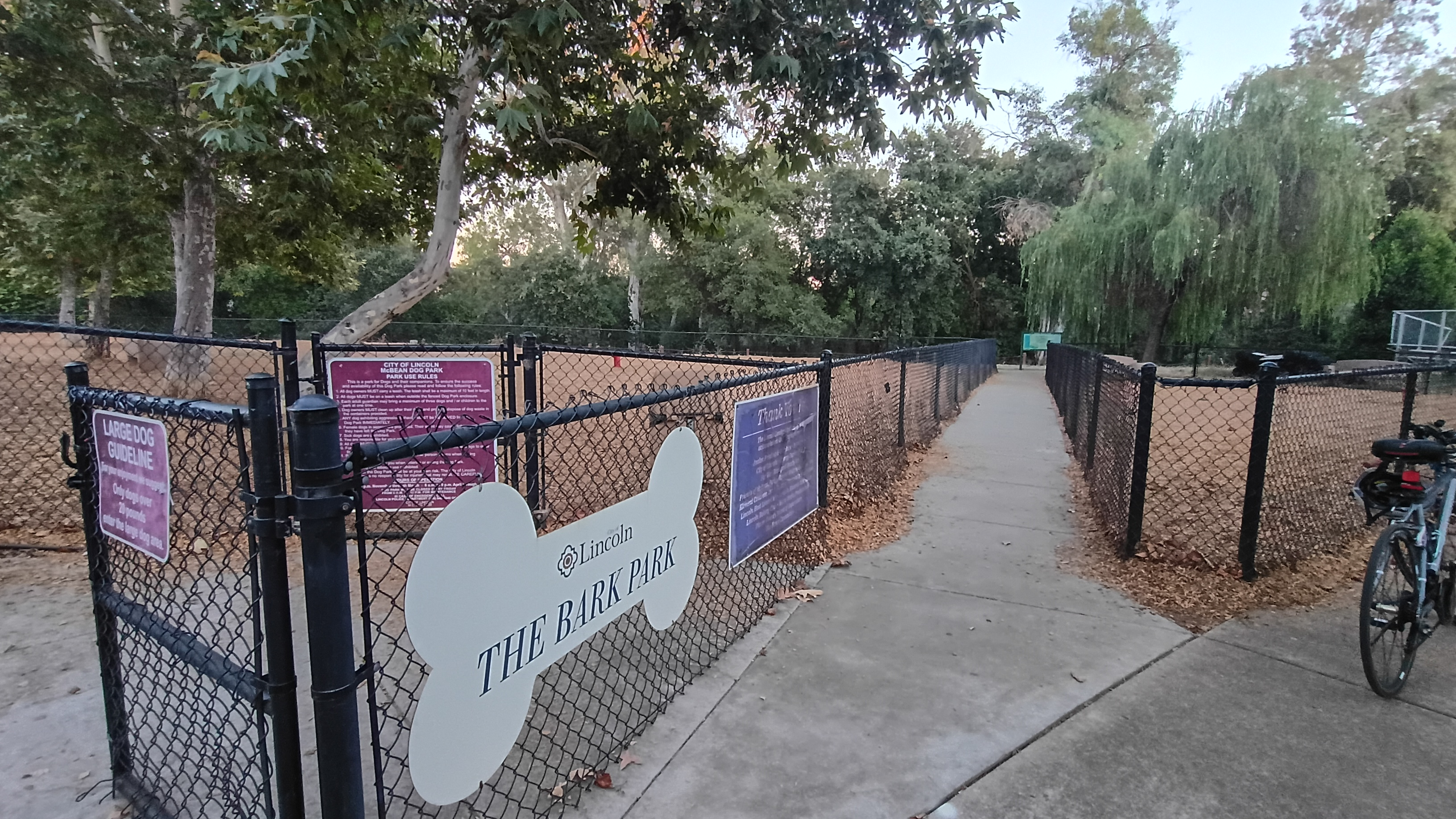 Bark Park